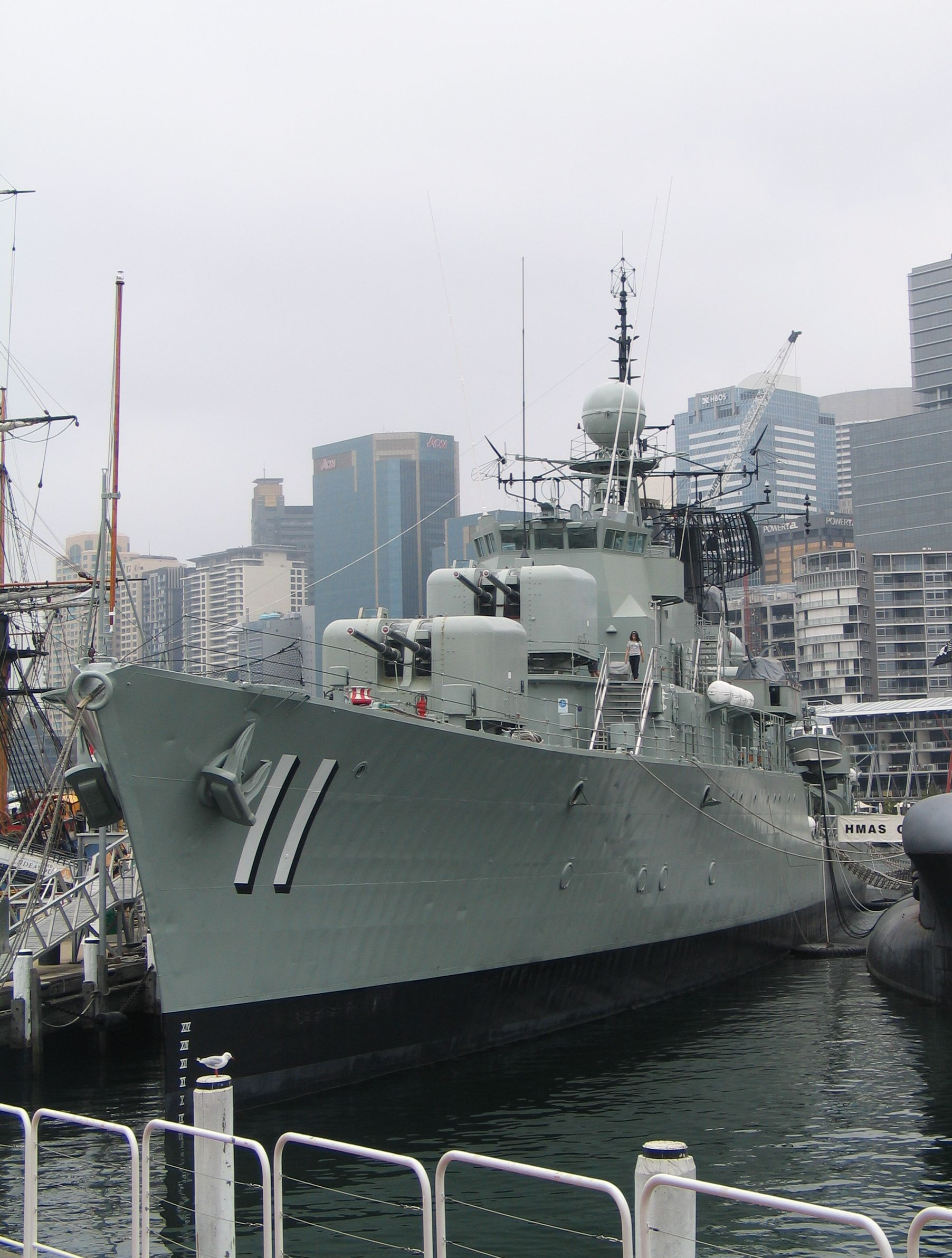 HMAS Vampire (D11) Daring Class destroyer at the Australian National Maritime Museum, Sydney, NSW, Australia.